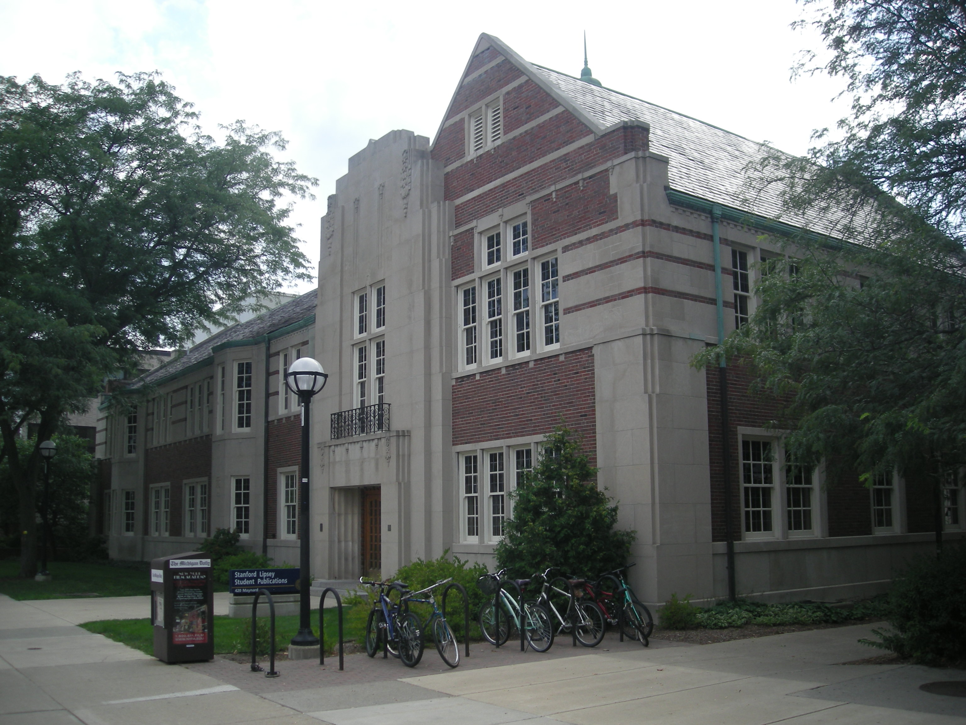 The Stanford Lipsey Student Publications building on the central campus of the University of Michigan in Ann Arbor, Michigan (United States).